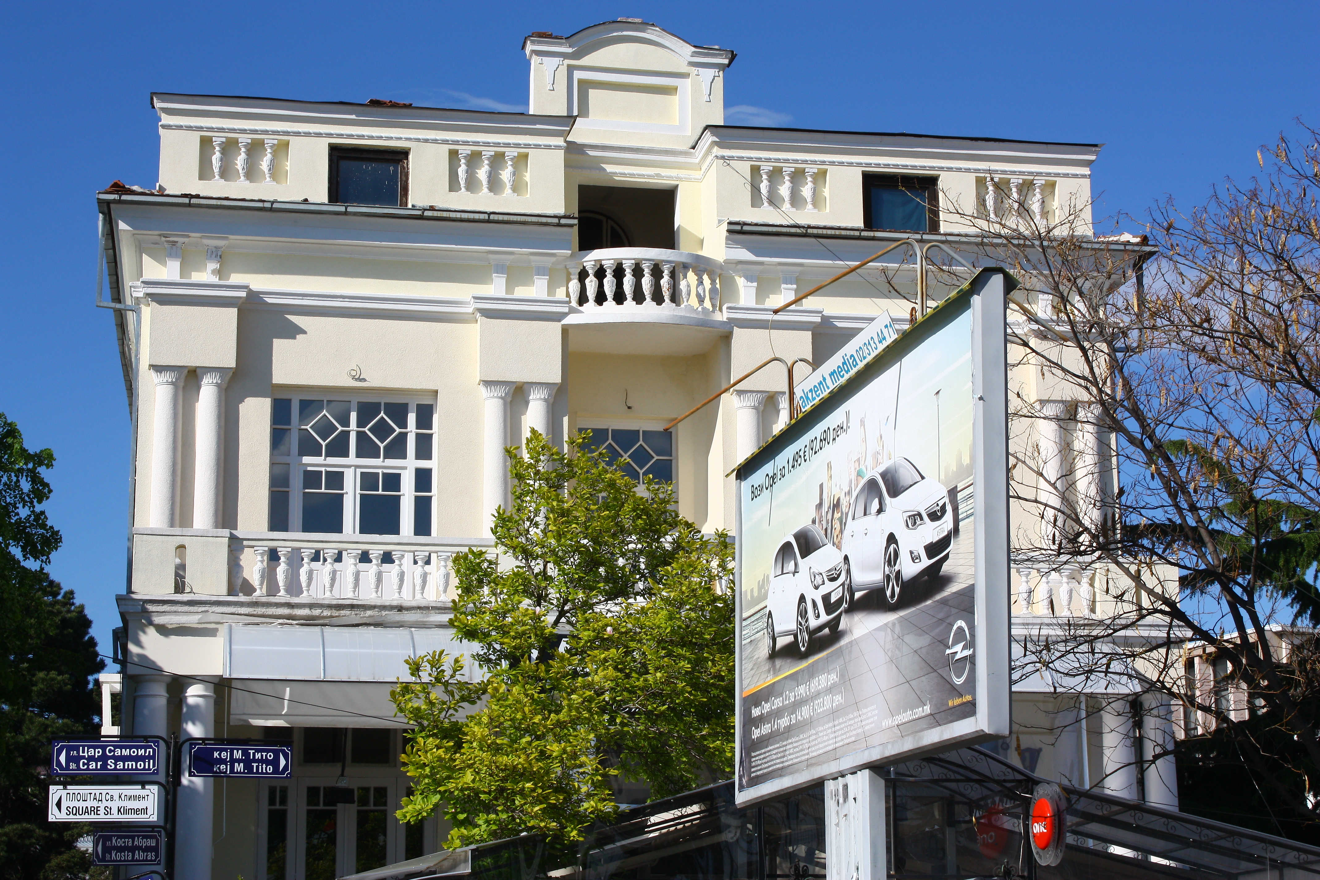 Ohrid, Macedonia